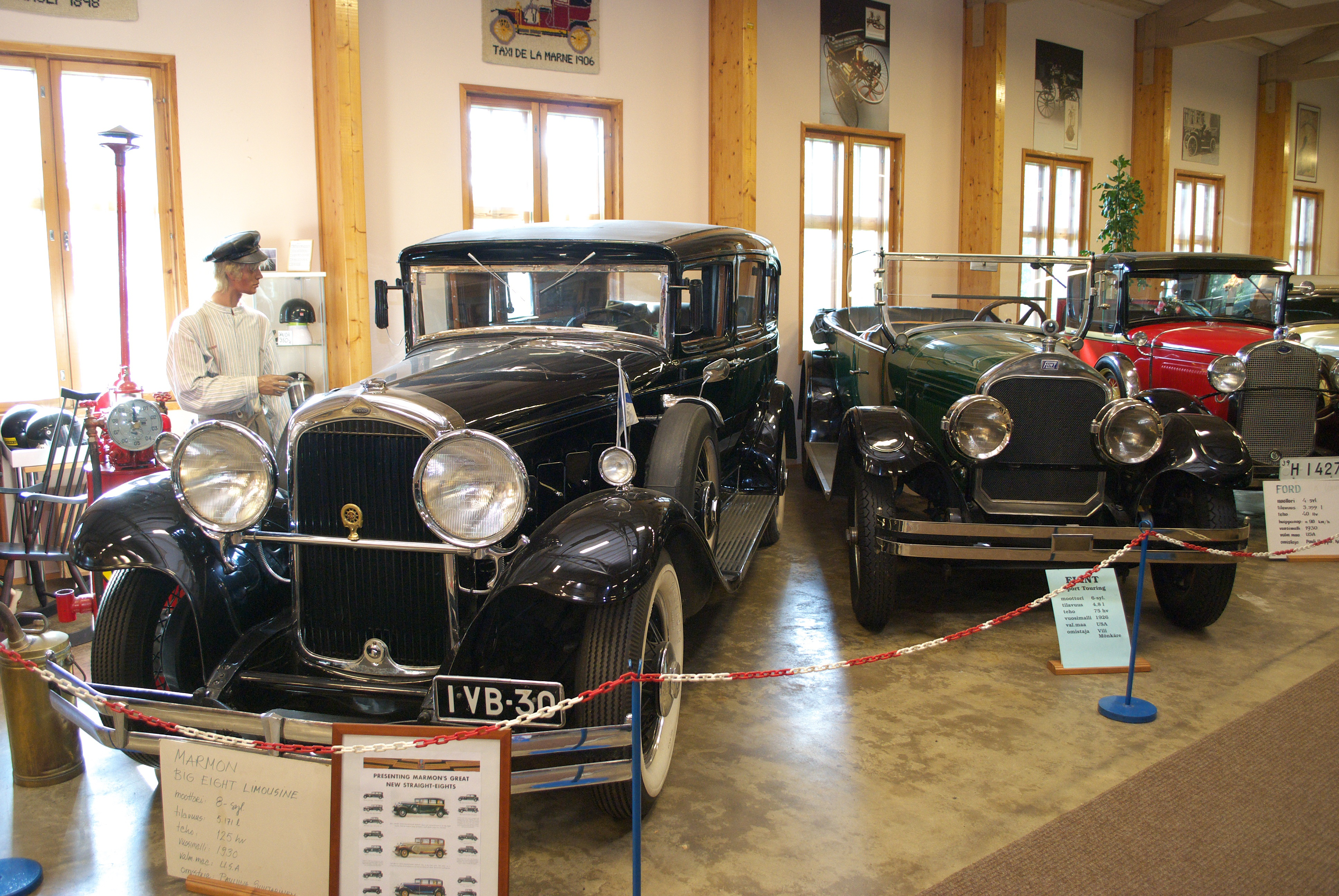 Marmon Big Eight Limousine 1930 and Flint Sport Touring 1926 at Vehoniemi automobile museum